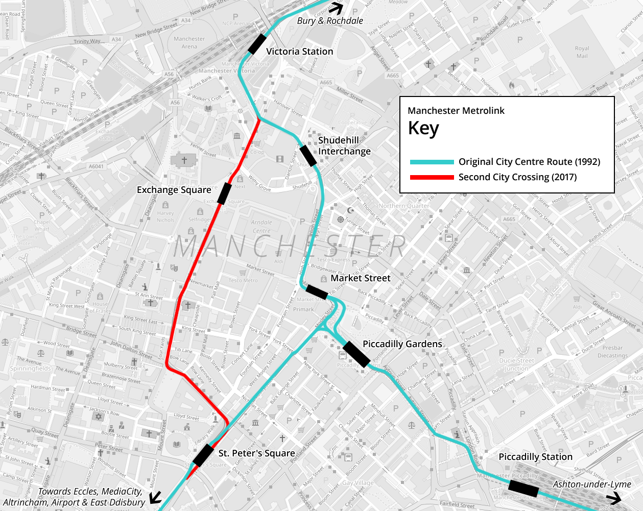 Map of Manchester City Centre showing the routes of the original Metrolink tram line (1992) and the Second City Crossing (2018)